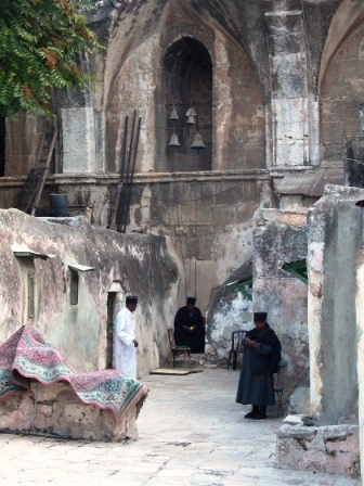 Ethiopian monks on the roof of Deir Sultan